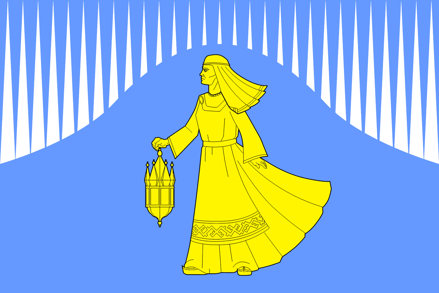 Flag of Loukhsky rayon, Karelia, Russia